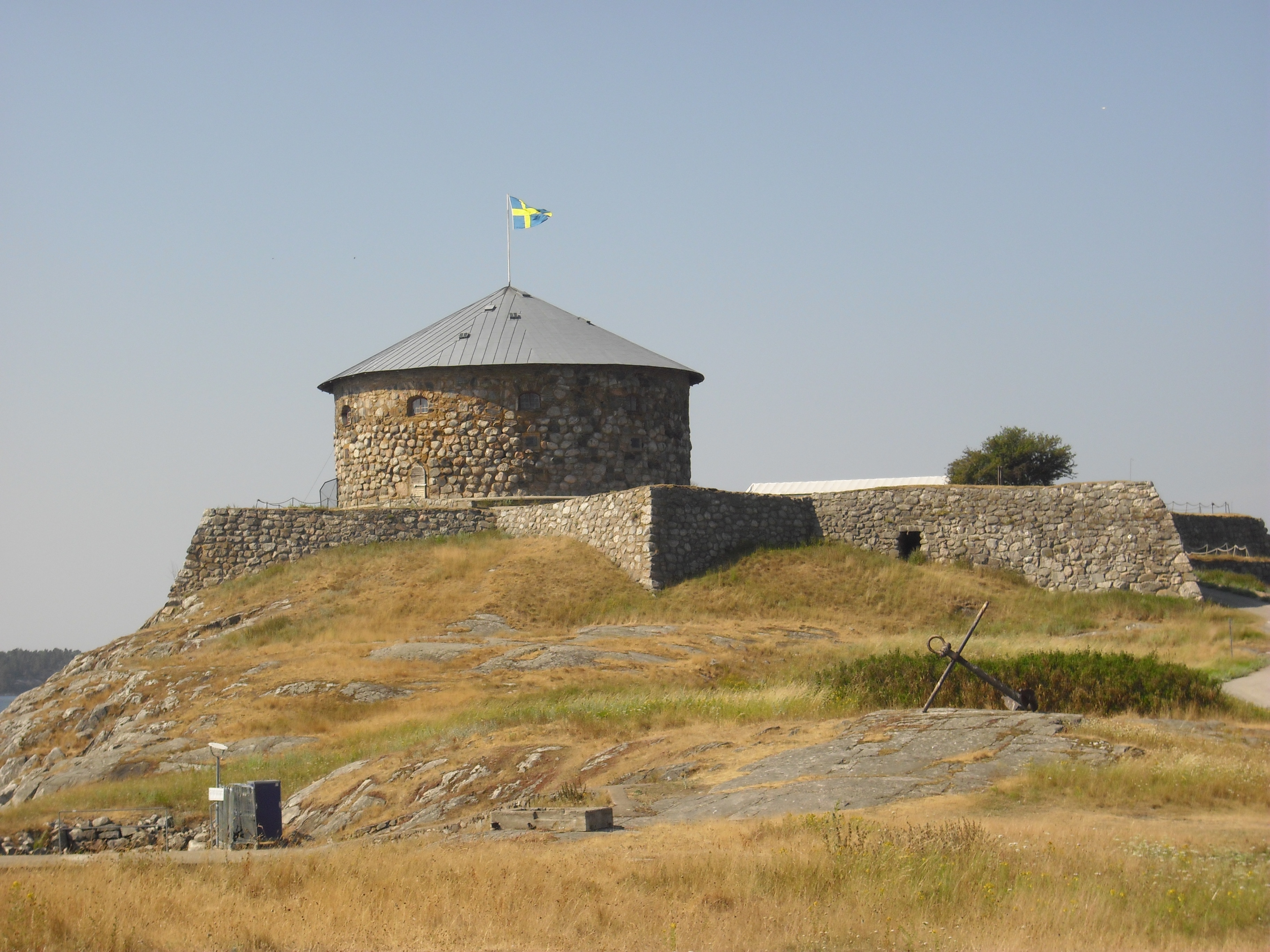 Dalarö Fortress in 2010 by Yvonne Öhrbom (1949).